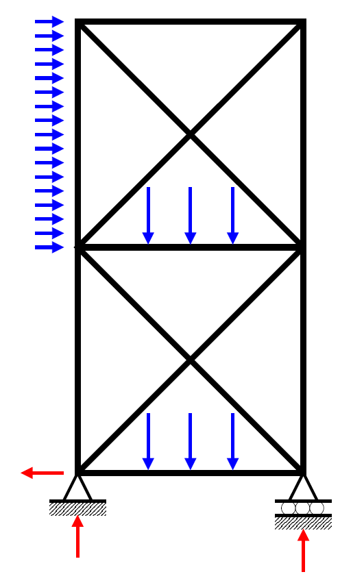 frame under wind and other loads